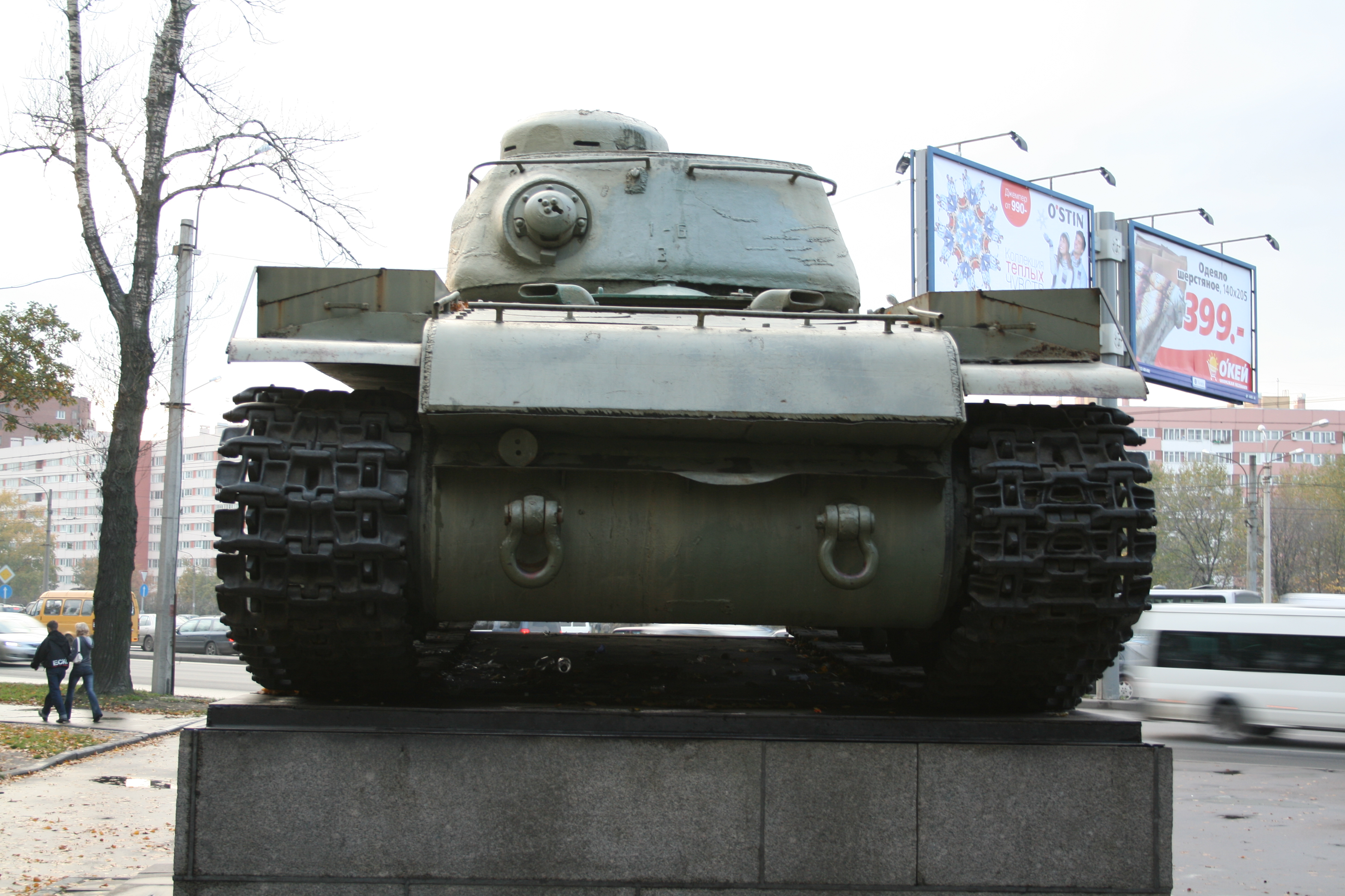 KV-85, rear view